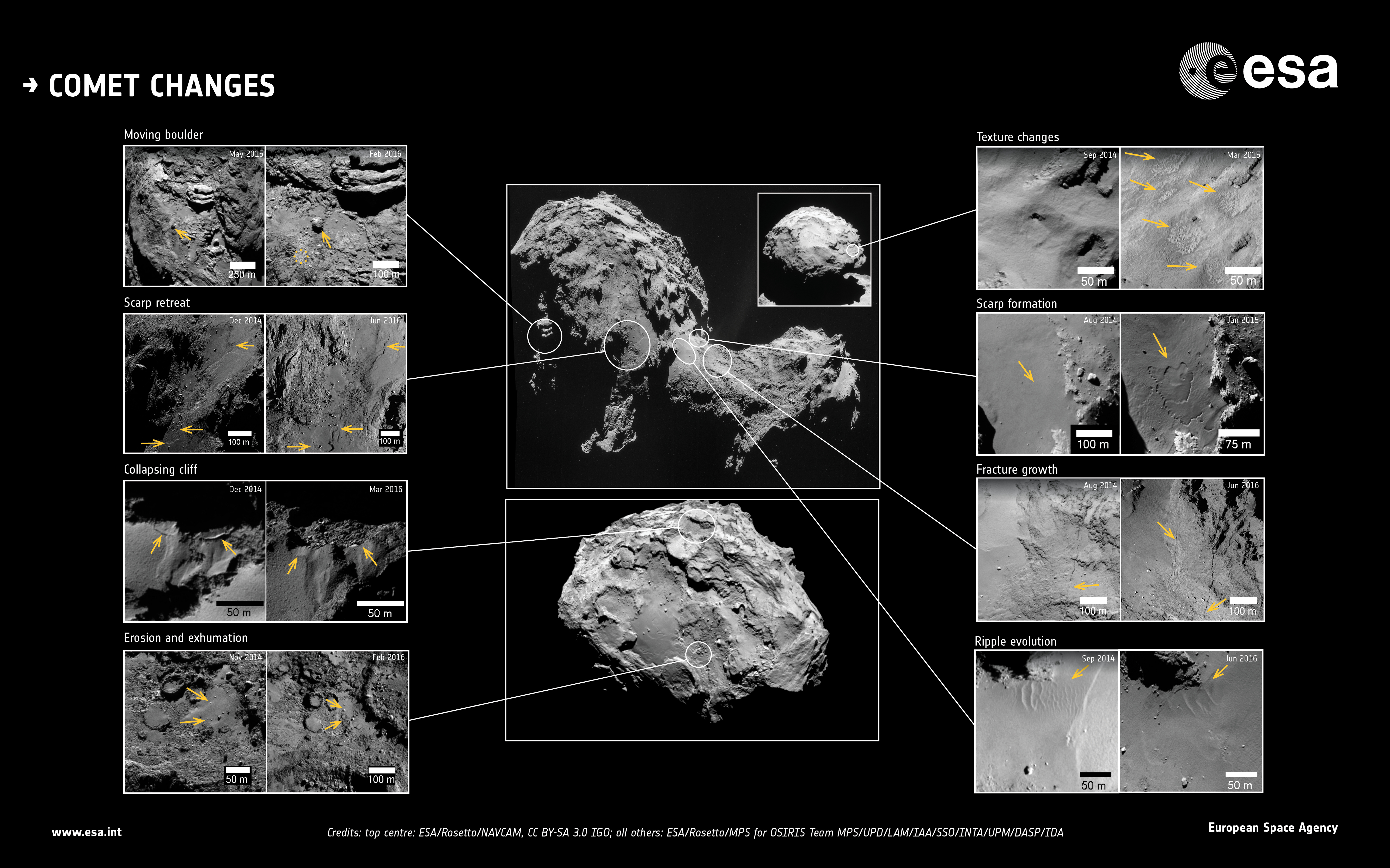 Showcase of the different types of changes identified in high-resolution images of Comet 67P/Churyumov–Gerasimenko during more than two years of monitoring by ESA’s Rosetta spacecraft. The approximate locations of each feature are marked on the central context images. Dates of when the ‘before’ and ‘after’ images were taken are also indicated. Note that the orientation and resolution between image pairs may vary, therefore in each image set arrows point to the location of the changes, for guidance.